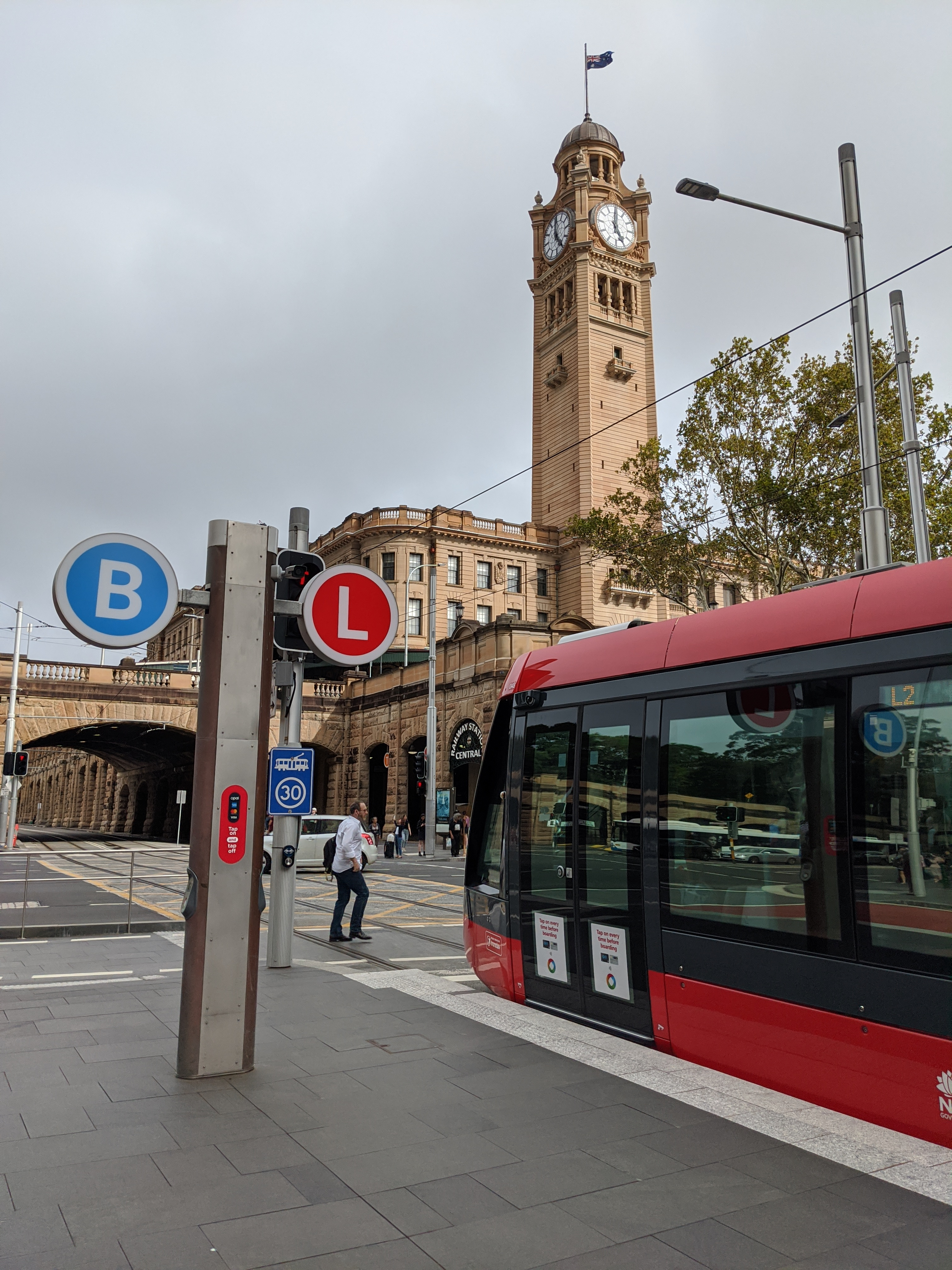 An L2 light rail service outside Central Station, Sydney